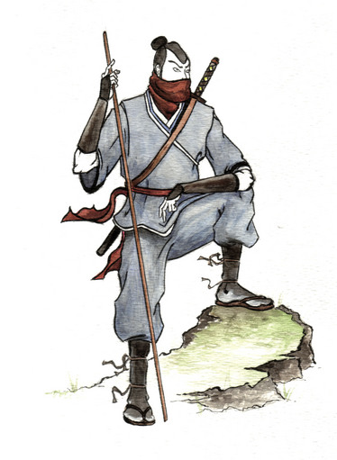 a ninja standing firmly